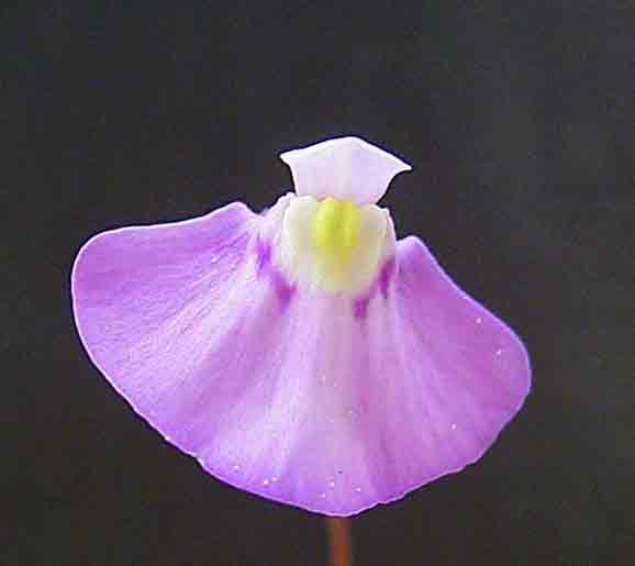 Utricularia uniflora originally uploaded to en.wikipedia by User:JoJan on 4 August 2004